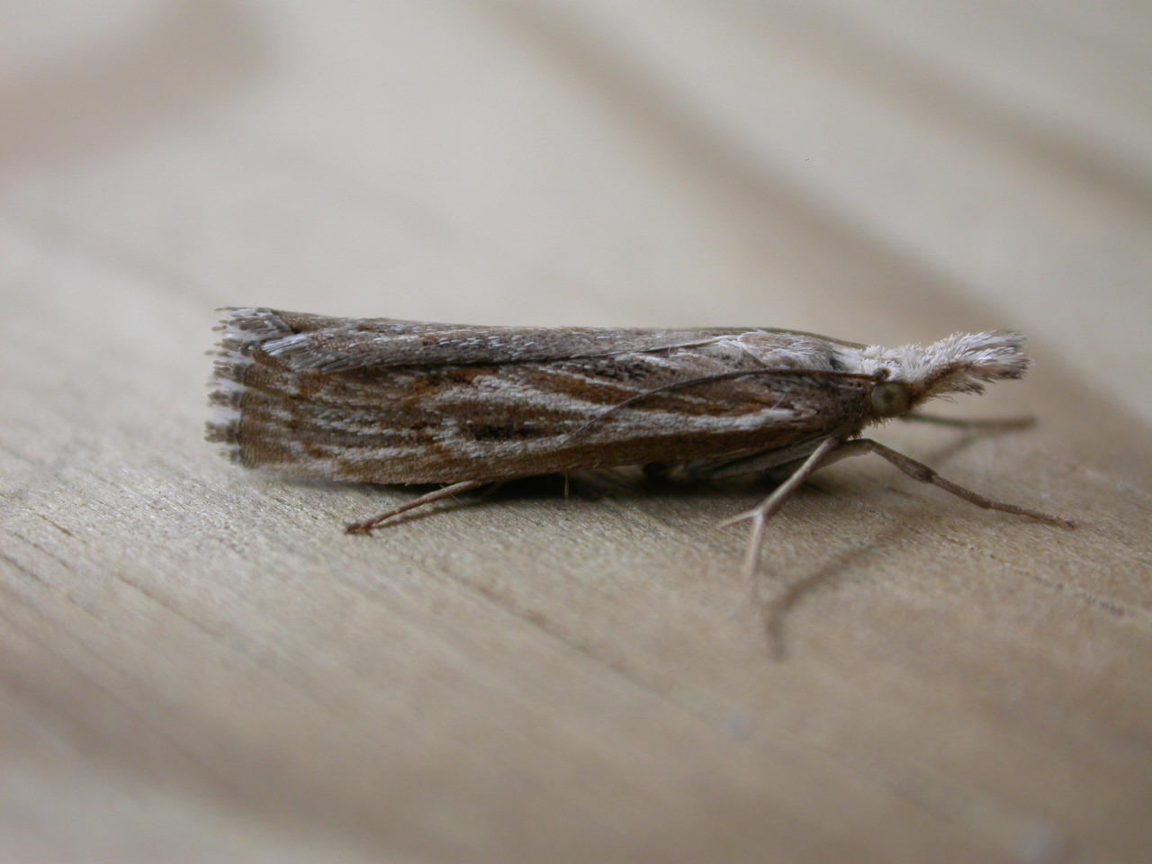 Pediasia fascelinella, Gastes, Landes, SW France, 30 June/1 July 2003